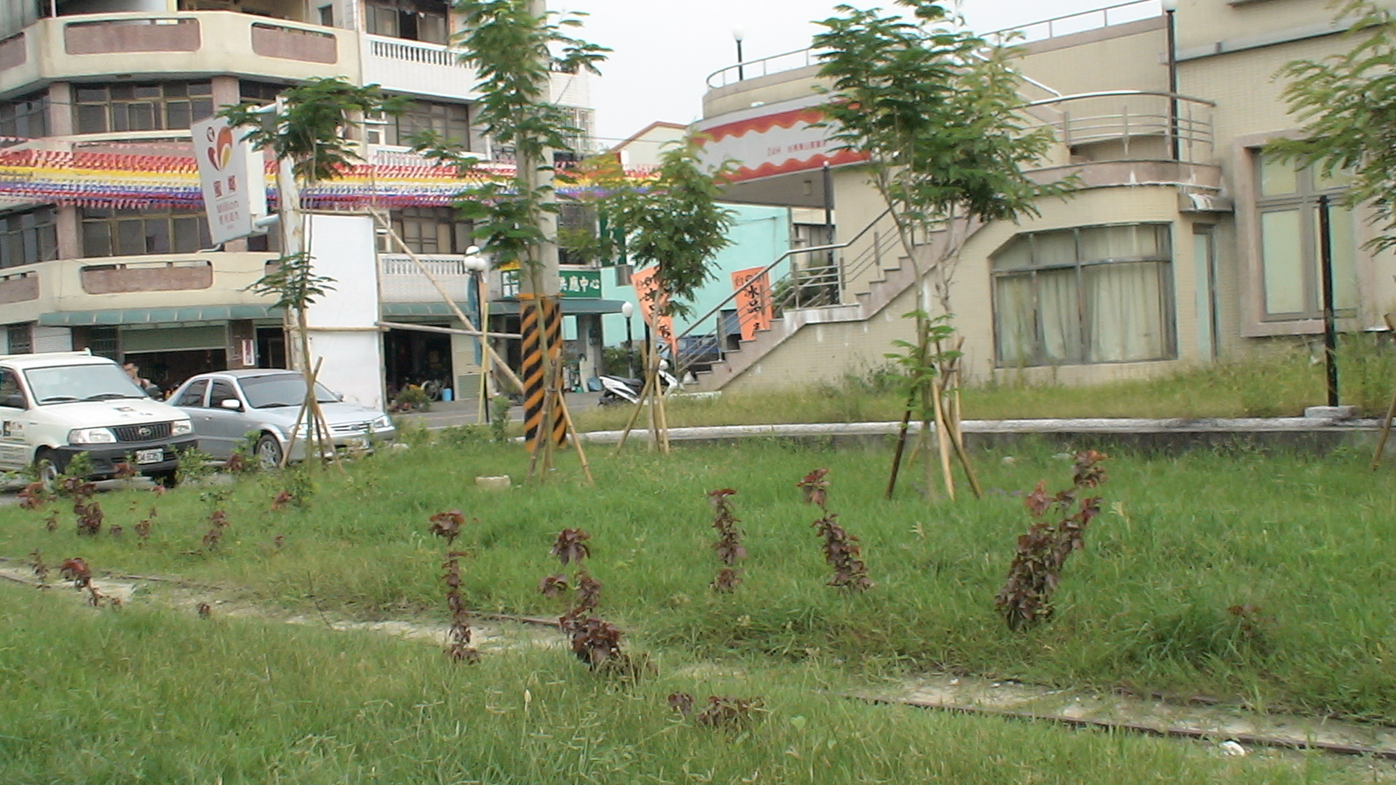 Vestige of Dongshan Station ,Dongshan, Tainan, Taiwan.